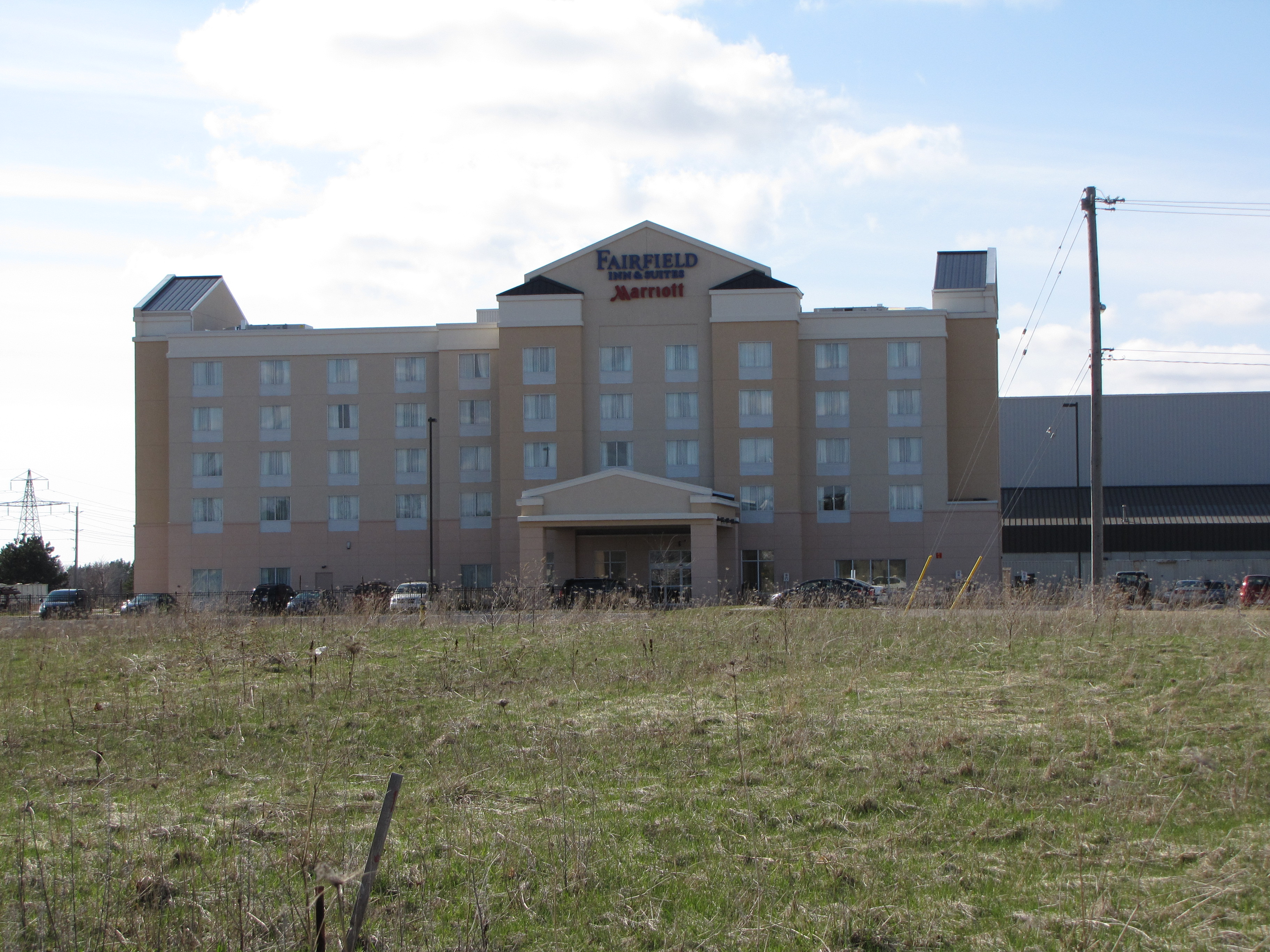 Fairfield Inn in Guelph, ON